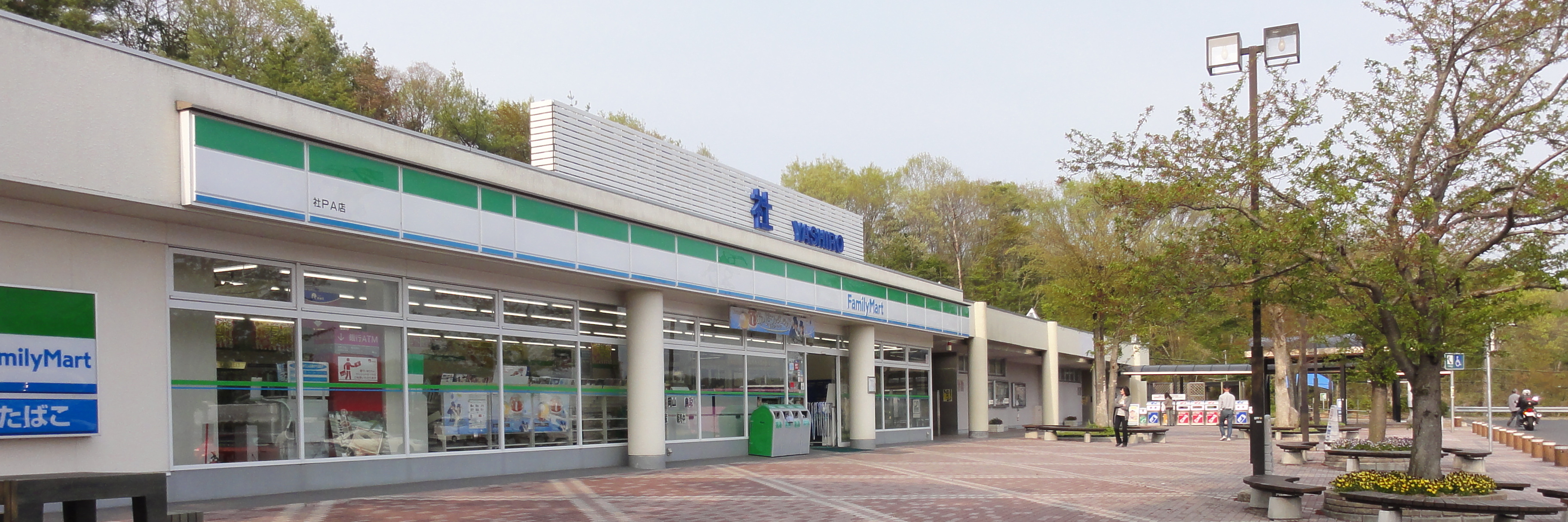 Yashiro Parking Area ,Hyogo prefecture, Japan